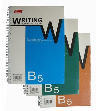 Wire bound note book